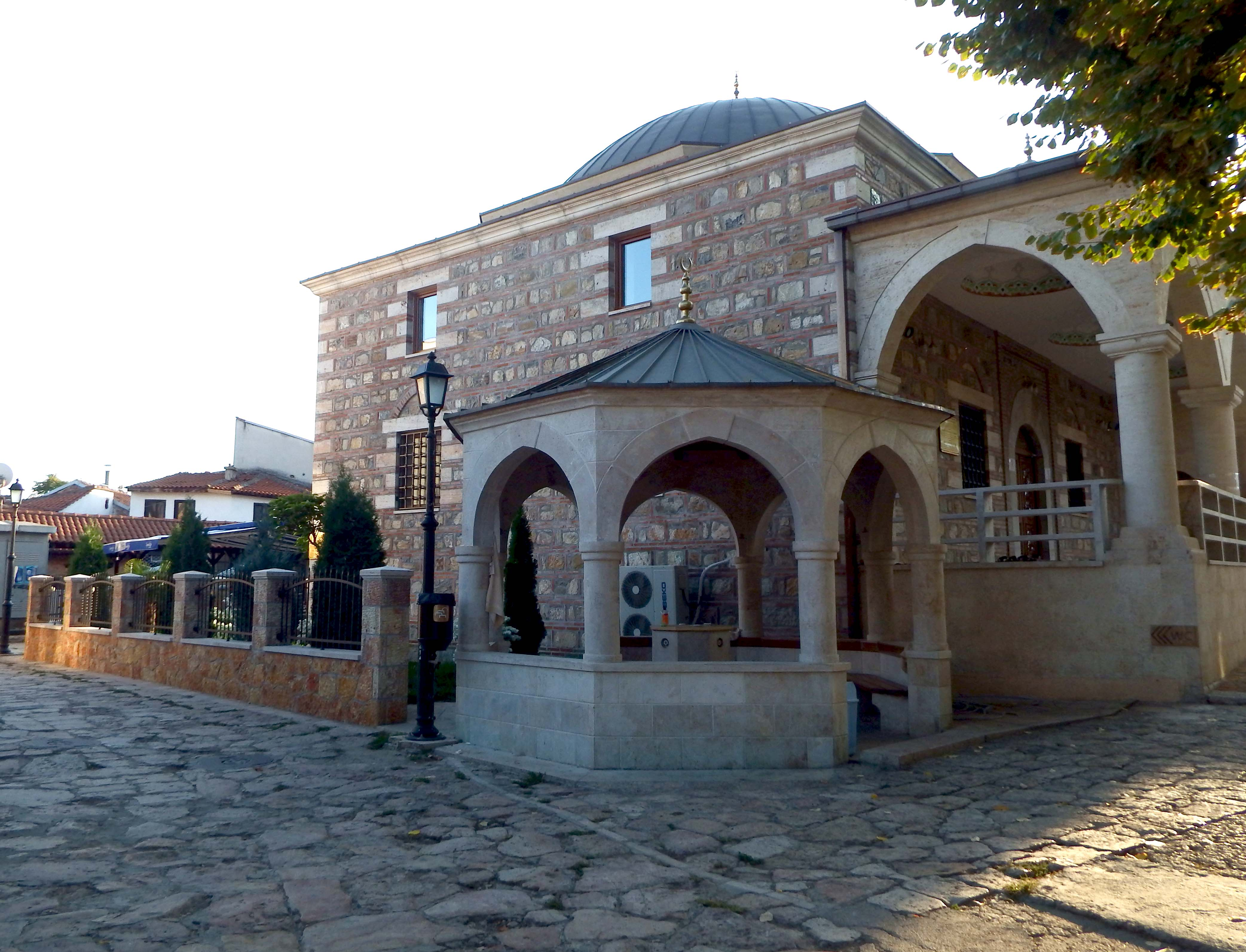 Arasta Mosque Skopje